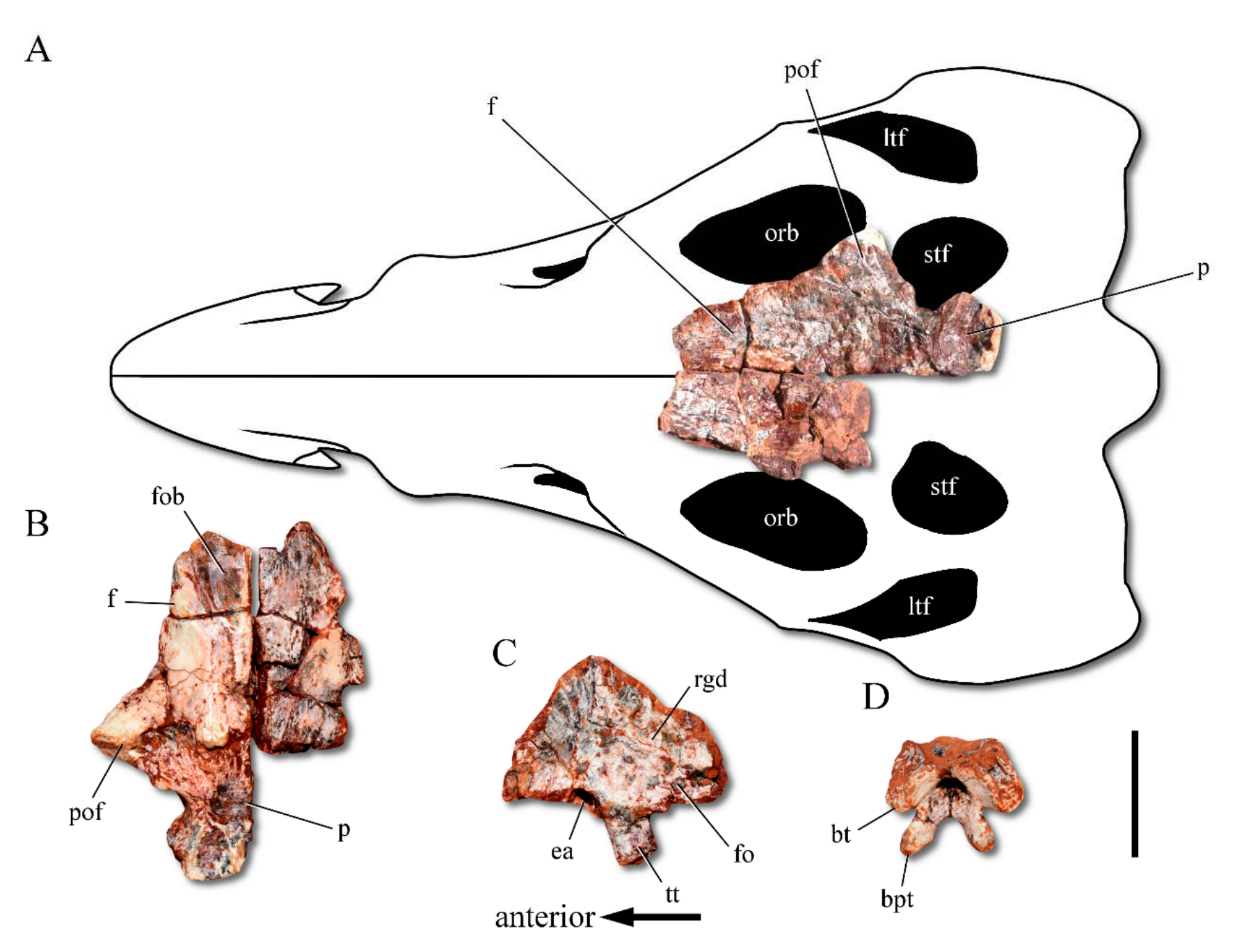 SOM Fig. S2. Selected skull parts of Dynamosuchus collisensis (CAPPA/UFSM 0248). A. Partial skull roof in dorsal view. B. Partial skull roof in ventral view. C. Partial left maxilla in lateral view. D. Parabasisphenoid in anterior view. Abbreviations: bpt, basipterygoid process; bt, basal tubera; ea, empty alveolus; f, frontal; fo, foramen; fob, fossa for the olfactory bulb; ltf, laterotemporal fenestra; orb, orbit; p, parietal; pof, postfontral; rdg, ridge; stf, supratemporal fenestra; tt, tooth. Scale bar = 30 mm.